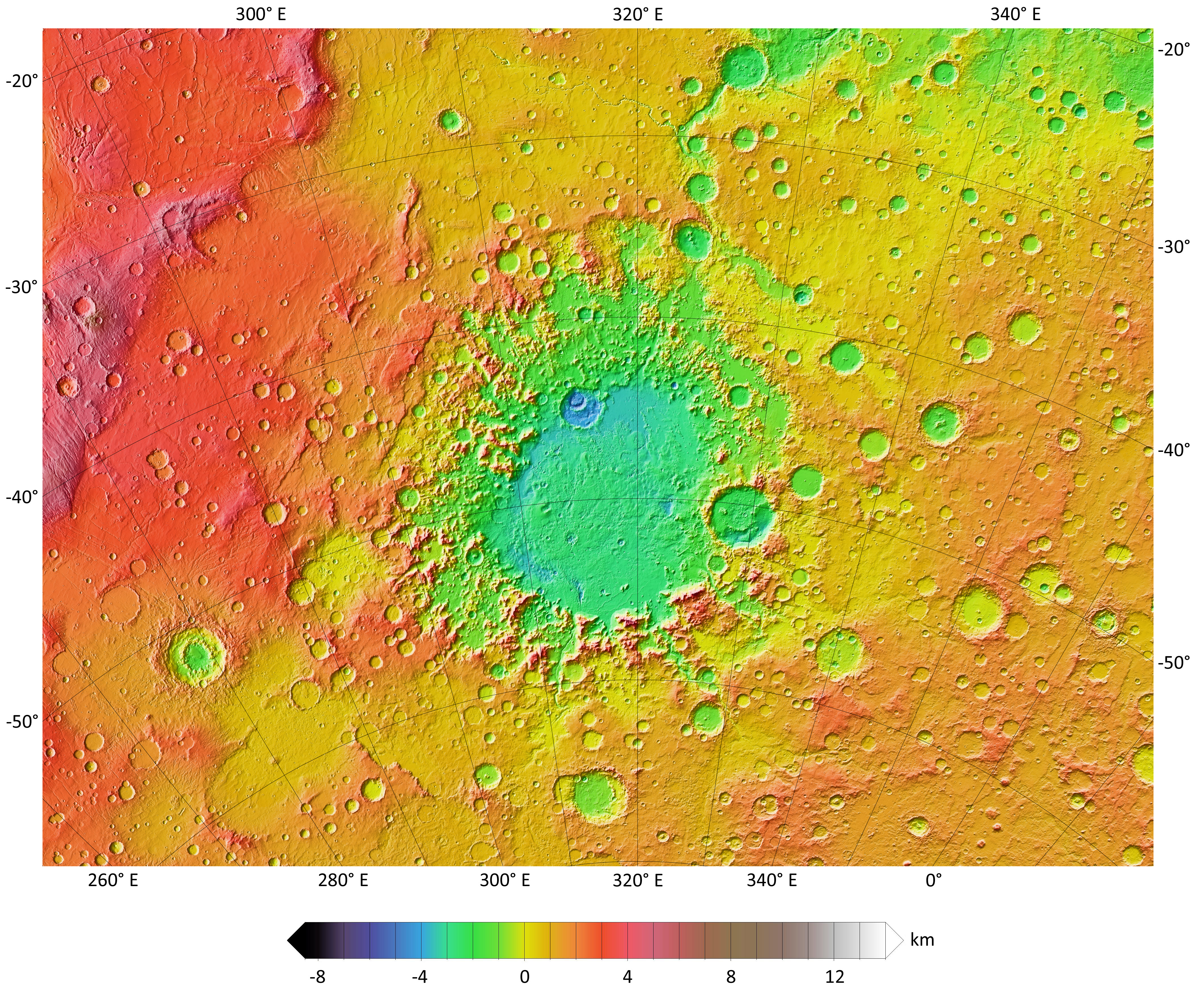 A colorized topographic map of the martian impact basin Argyre, together with its surroundings, from the Mars Orbiter Laser Altimeter (MOLA) instrument of the Mars Global Surveyor spacecraft. Argyre, the second deepest basin on Mars, lies in the southern hemisphere, southeast of the canyon system Valles Marineris. Some of the features in this image have been annotated in Wikimedia Commons.